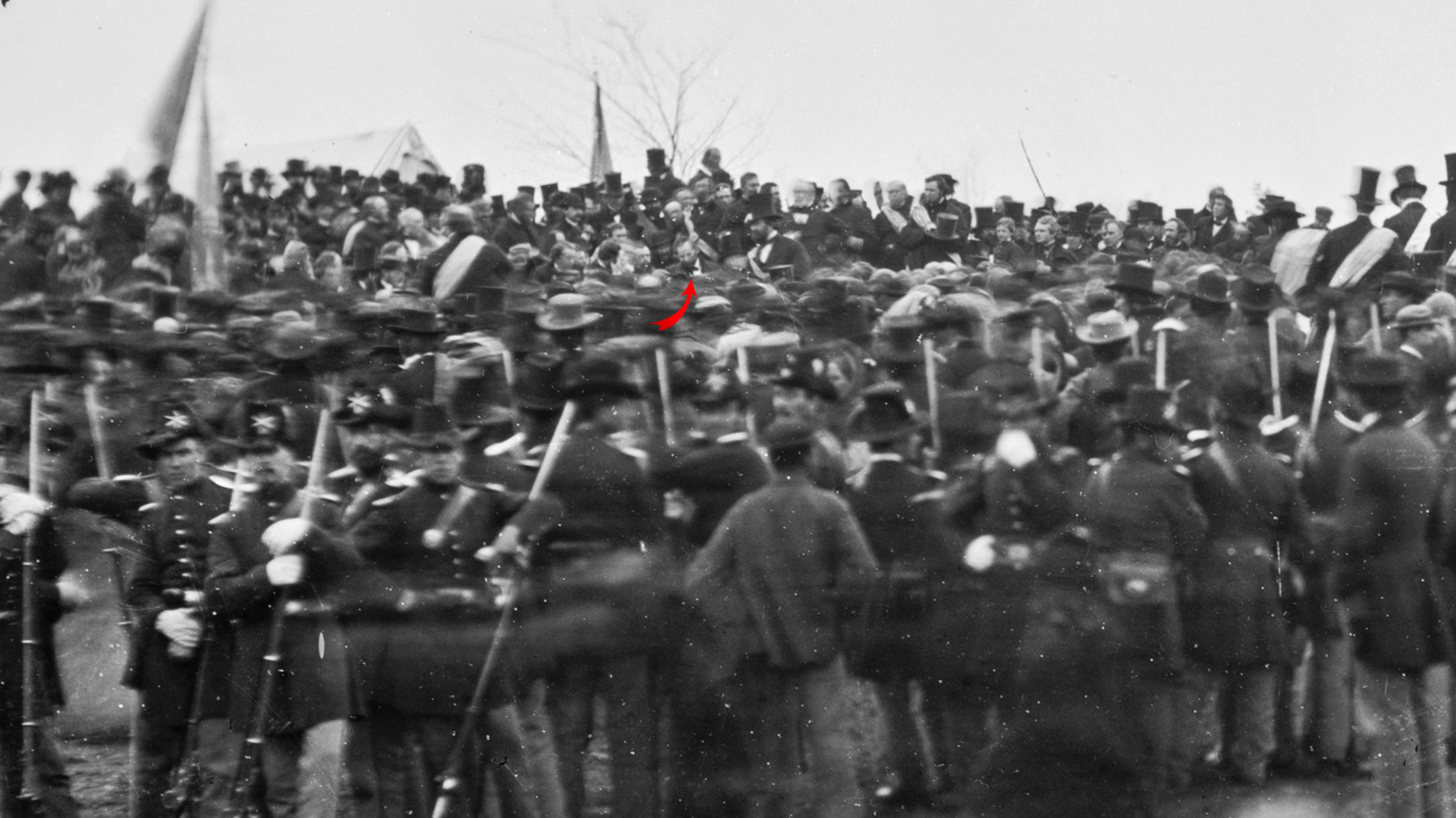 General notes: Use War and Conflict Number 120 when ordering a reproduction or requesting information about this image.Use War and Conflict Number 121 when ordering a reproduction or requesting information about this image.